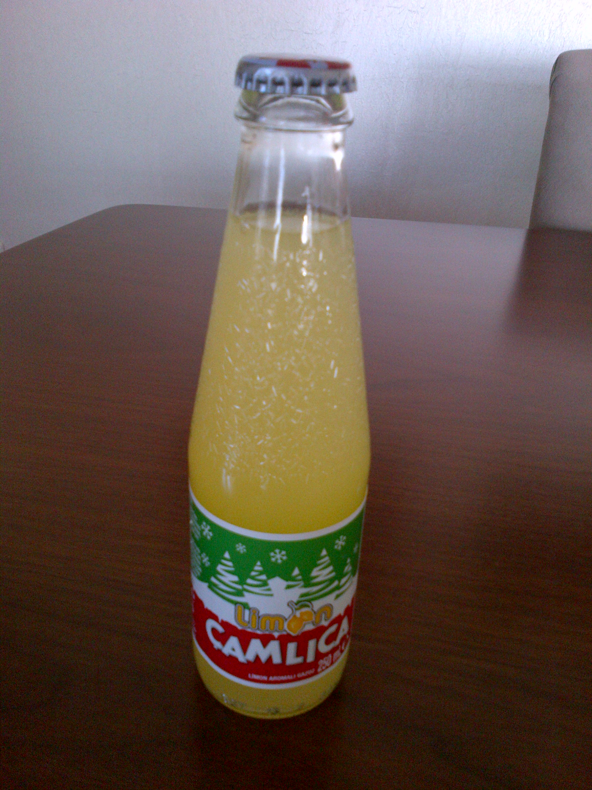 Çamlıca, a traditional soft drink from Turkey.